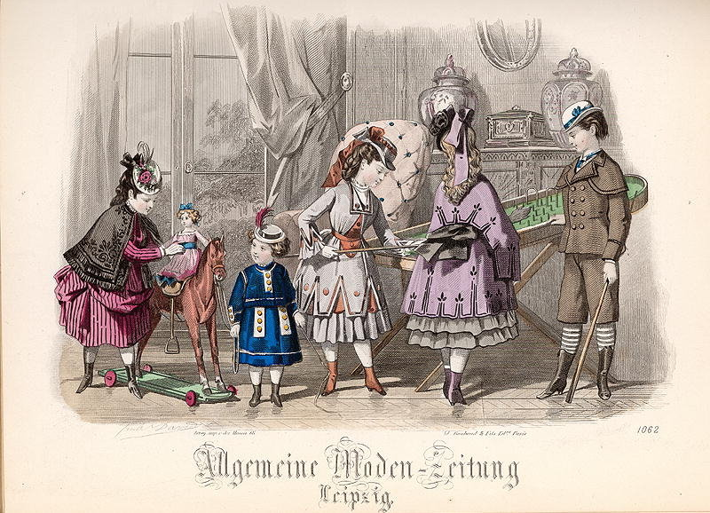 Children at Play, fashion plate from the Allgemeine Moden-Zeitung, Leipzig